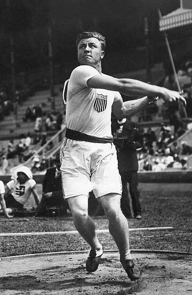 Richard Byrd during the discus throw competition at the 1912 Summer Olympics